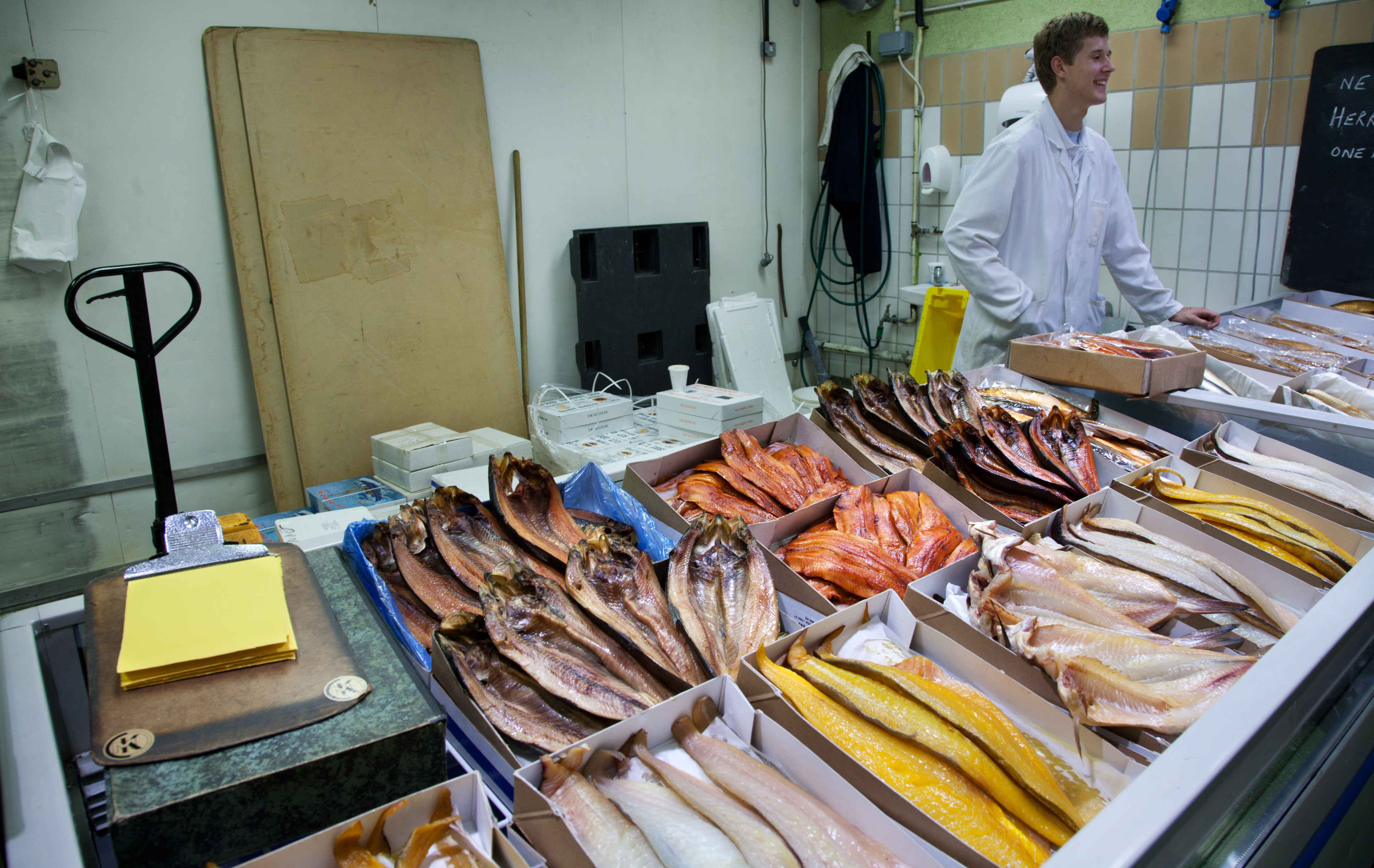 Billingsgate Fish Market, London, UK